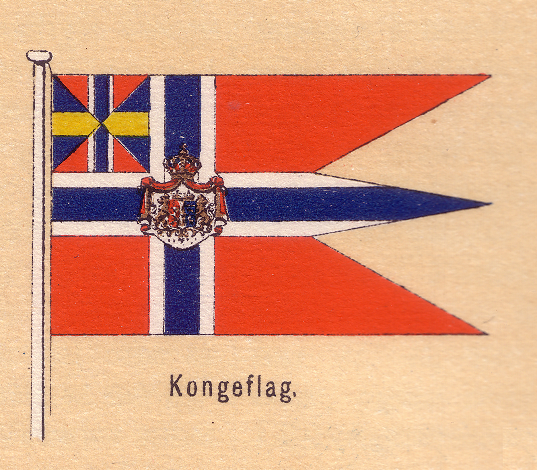 Royal flag of Norway with Union badge and unauthorized version of the coat of arms of the Union between Sweden and Norway, impaled with the arms of Norway placed heraldic dexter.